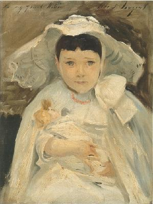 Portrait of Marion Roller Also entitled Madge Roller (Marian) John Singer Sargent -- American painter 1893 Private collection Oil on canvas 59.7 x 44.5 cm (23 1/2 x 17 1/2 in) inscribed: To my friend Nettie John S. Sargent Jpg